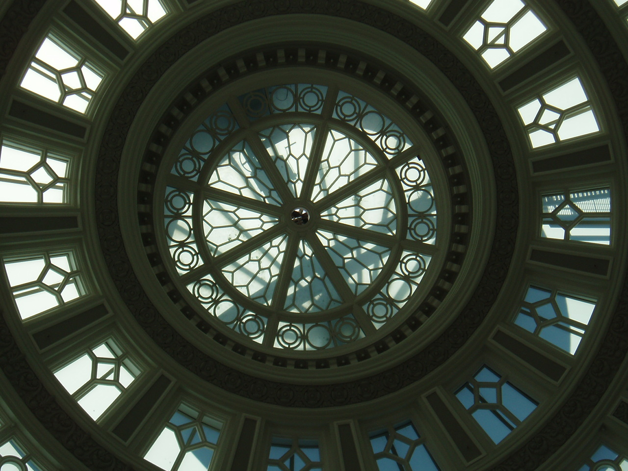 The Dome of Westfield Mall in San Francisco, California